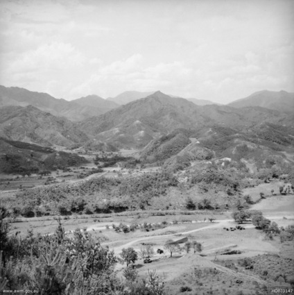 AWM Caption: Kapyong, South Korea. June 1952. A panoramic view from the left of A Company's, 1st Battalion, The Royal Australian Regiment (1RAR), position at Kapyong facing the direction from which the Communists advanced.